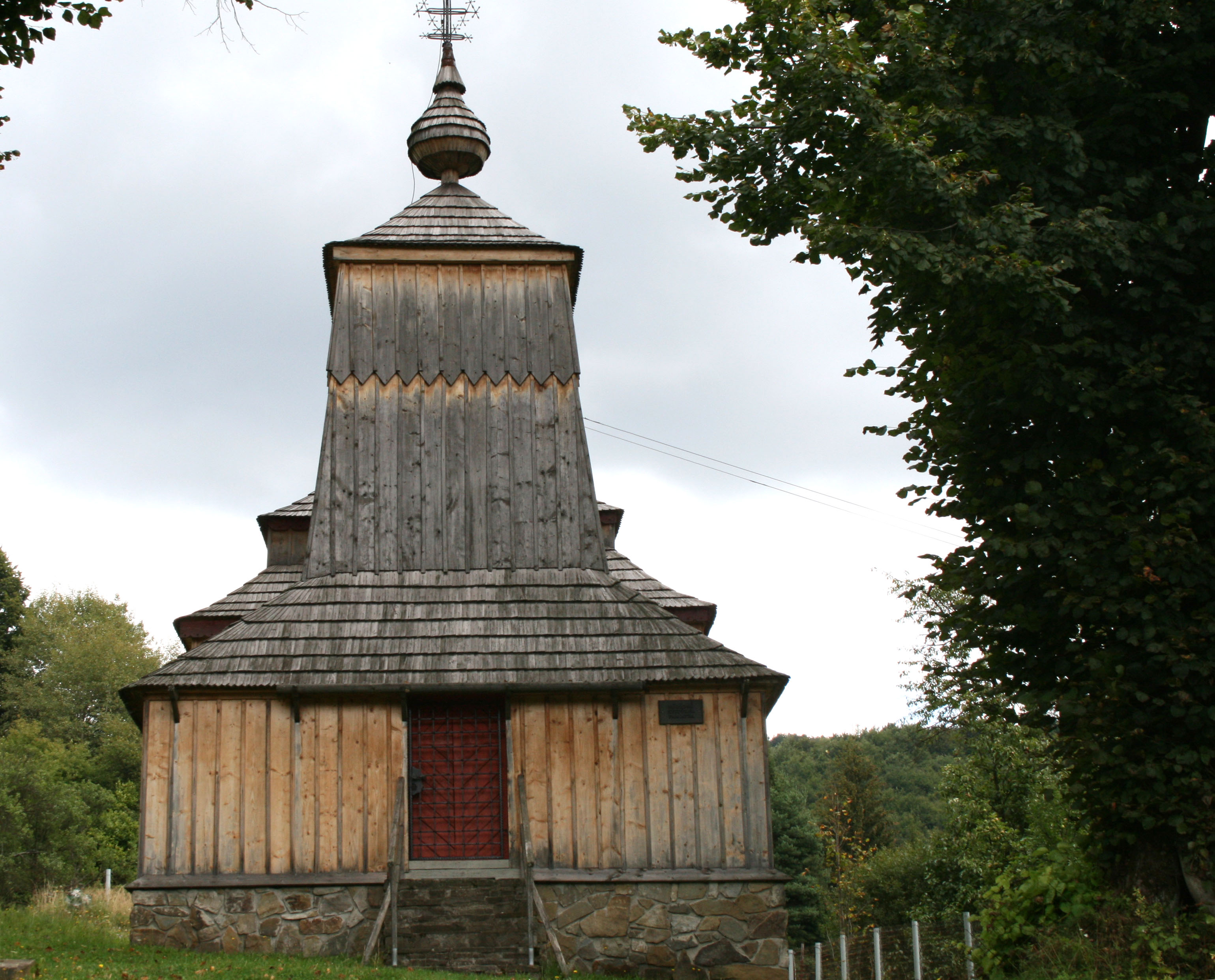 Greckokatolicka cerkov v Príkrej zapadny pohlad